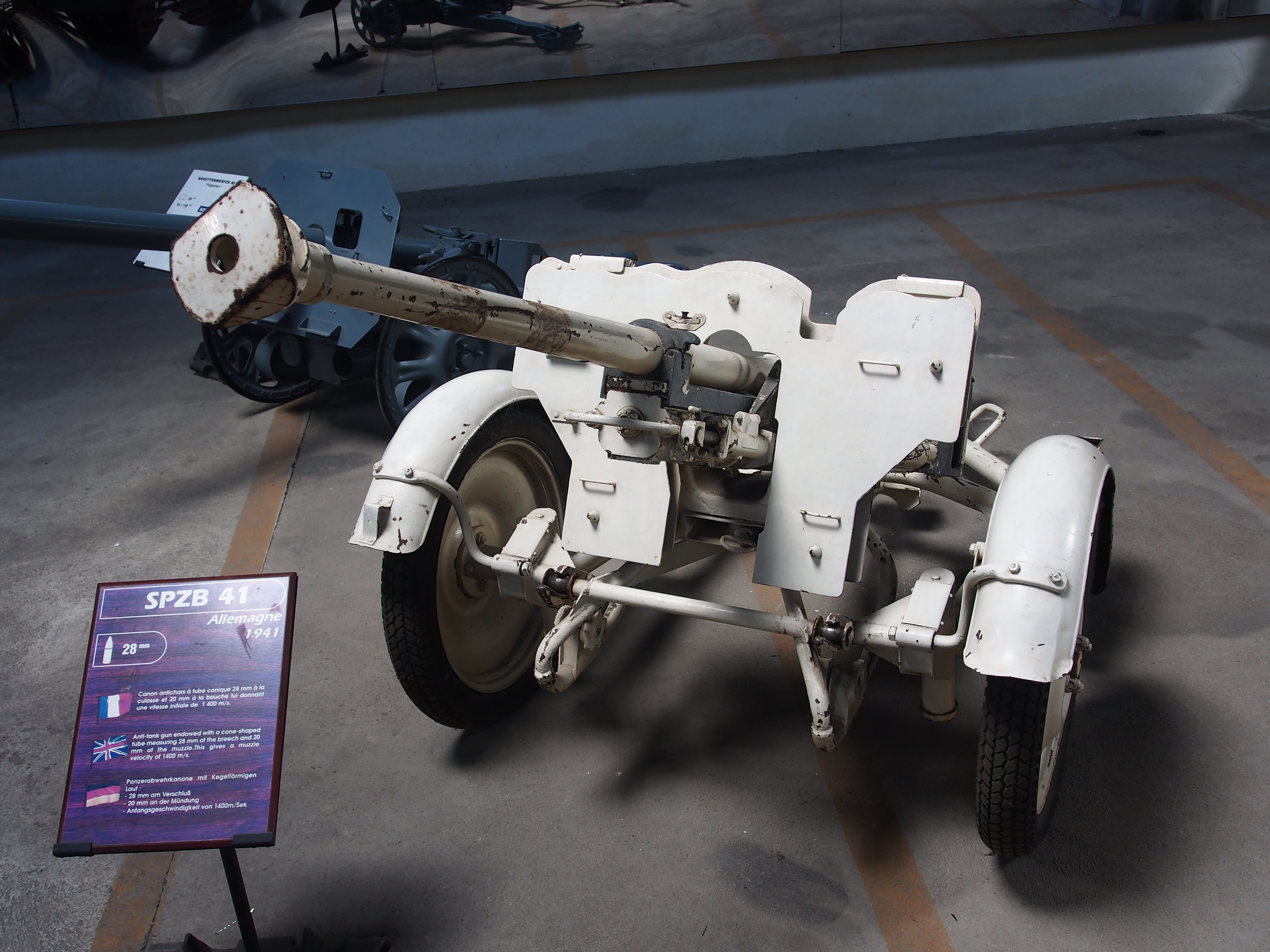 Photographed in the Musée des Blindés, France.